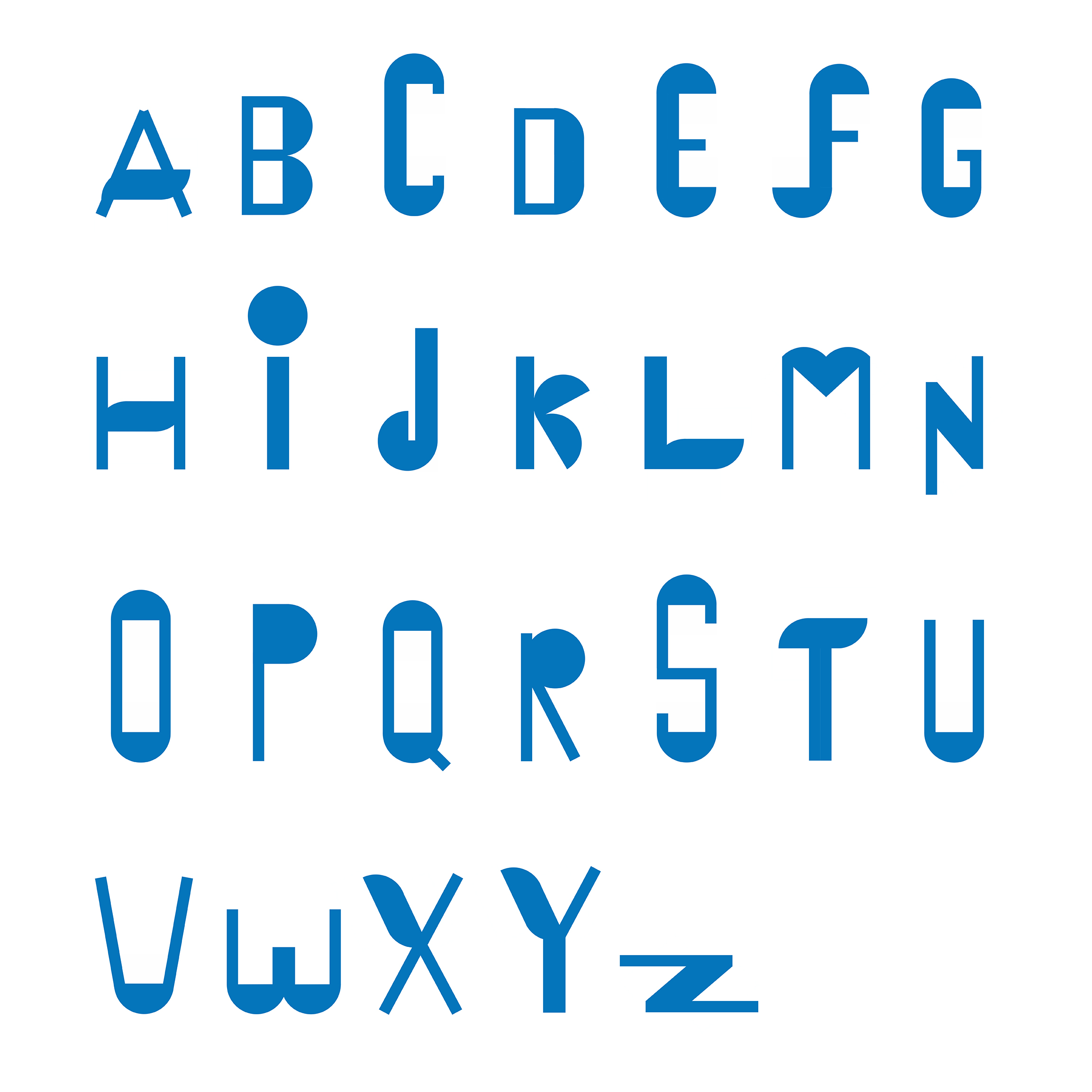 The upper case letterforms of a font made by cutting up the component parts of Blinky Palermo's Blau Scheibe und Stab (1968)